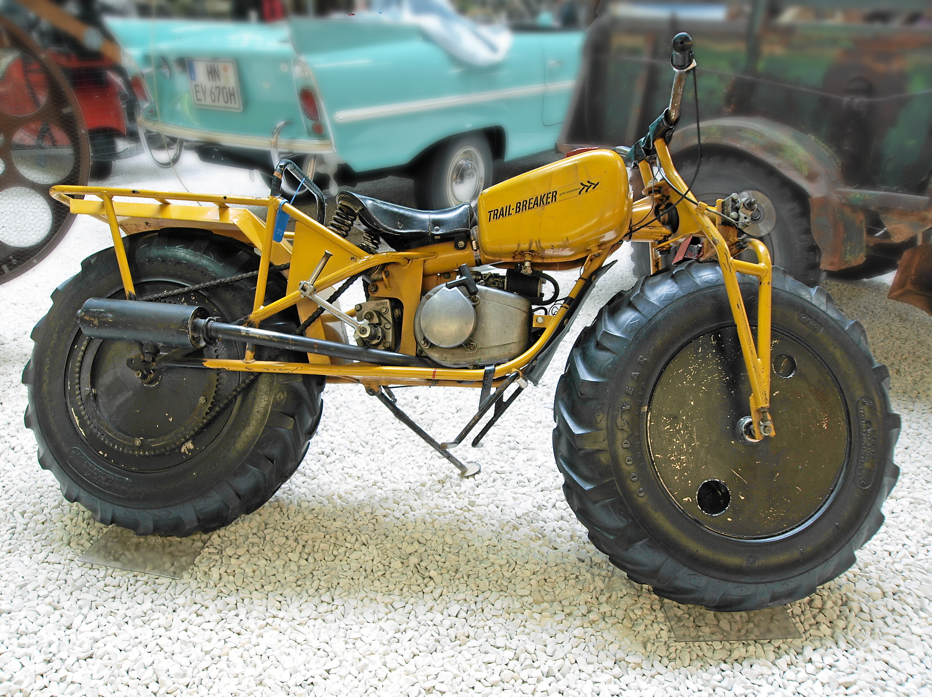 Rokon Trail Blaser - photographed at the Auto & Technic museum Sinsheim.